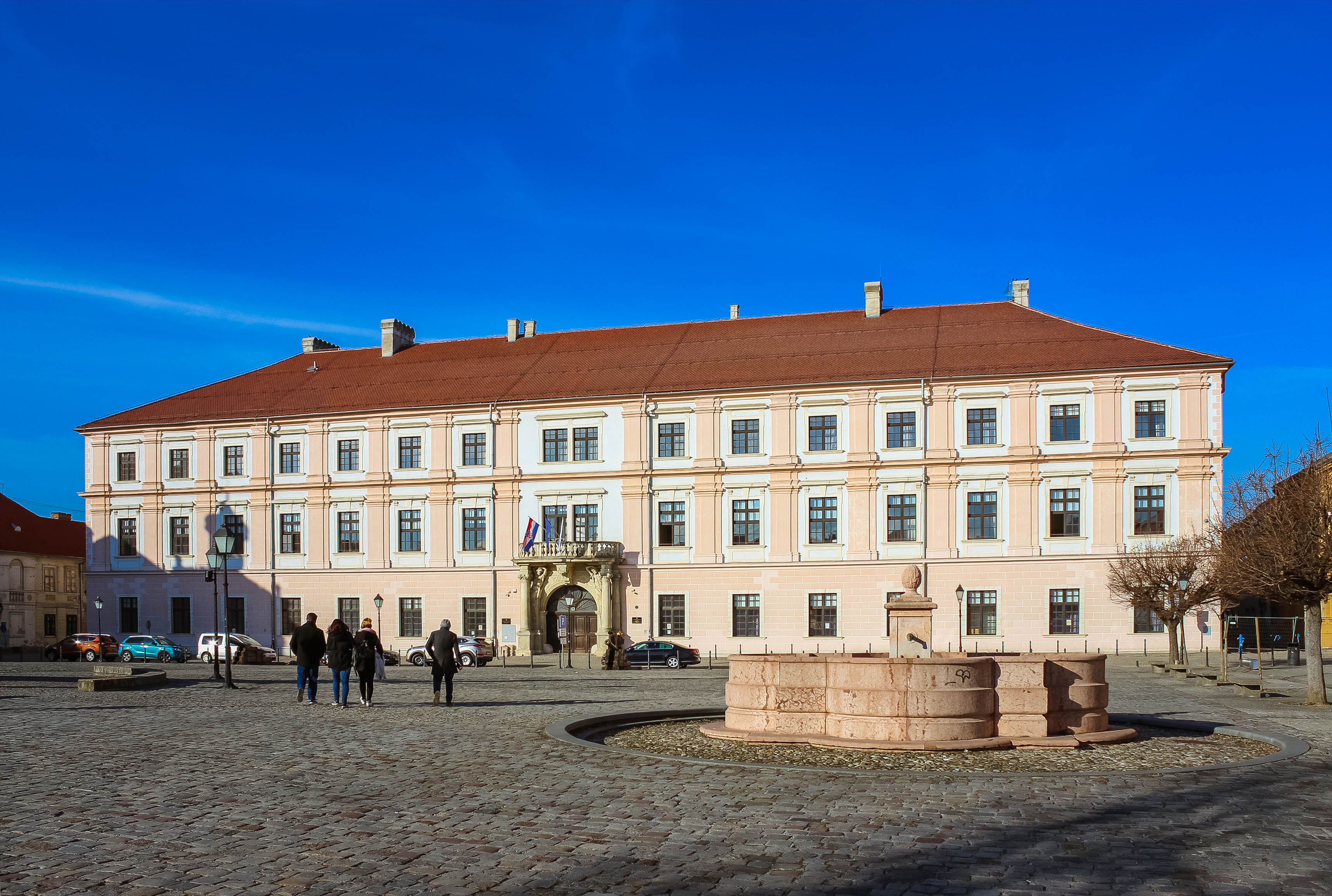 Building